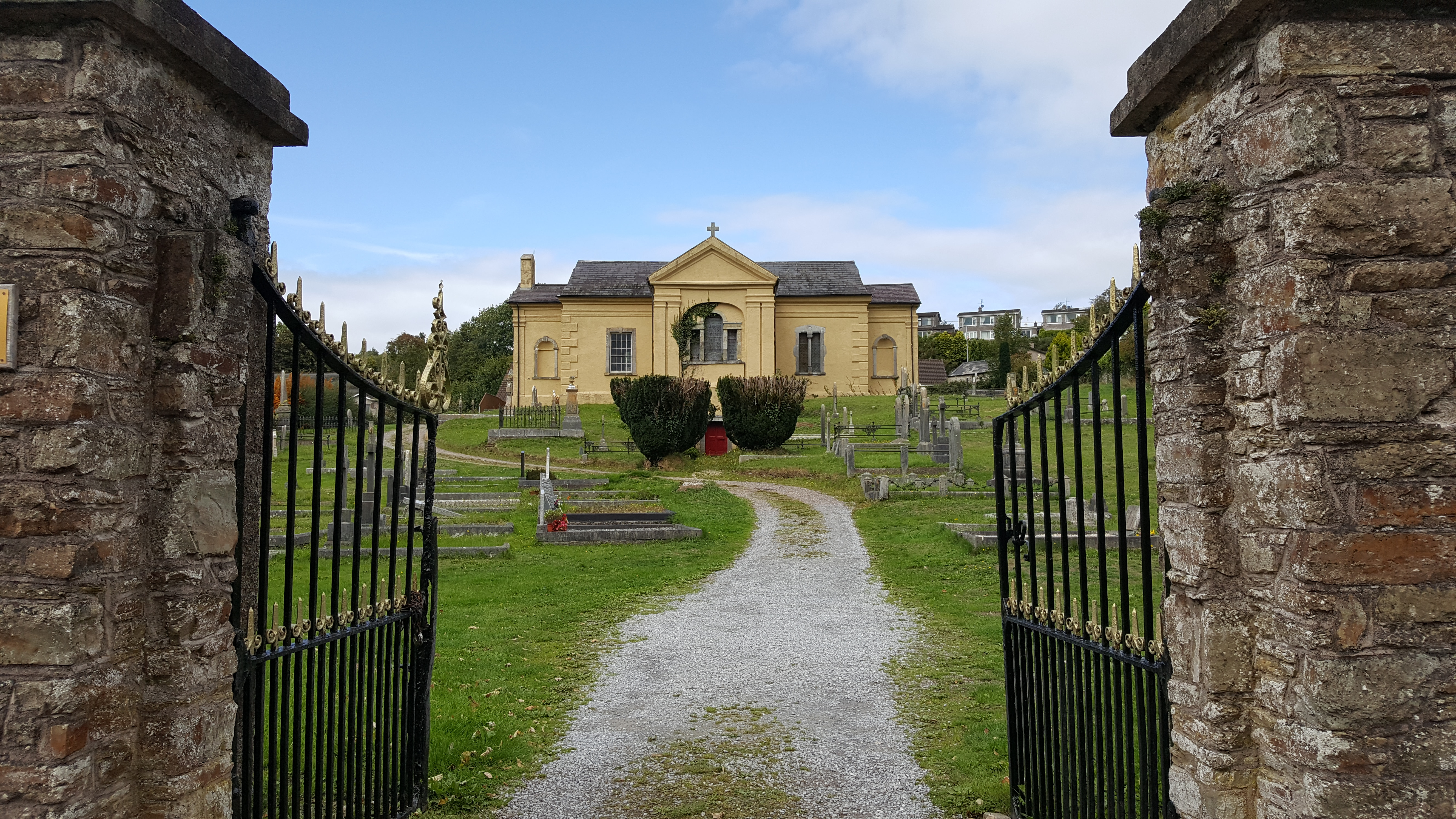 Blarney, Church of the Resurrection. Wikidata has entry Q55028003 with data related to this item.